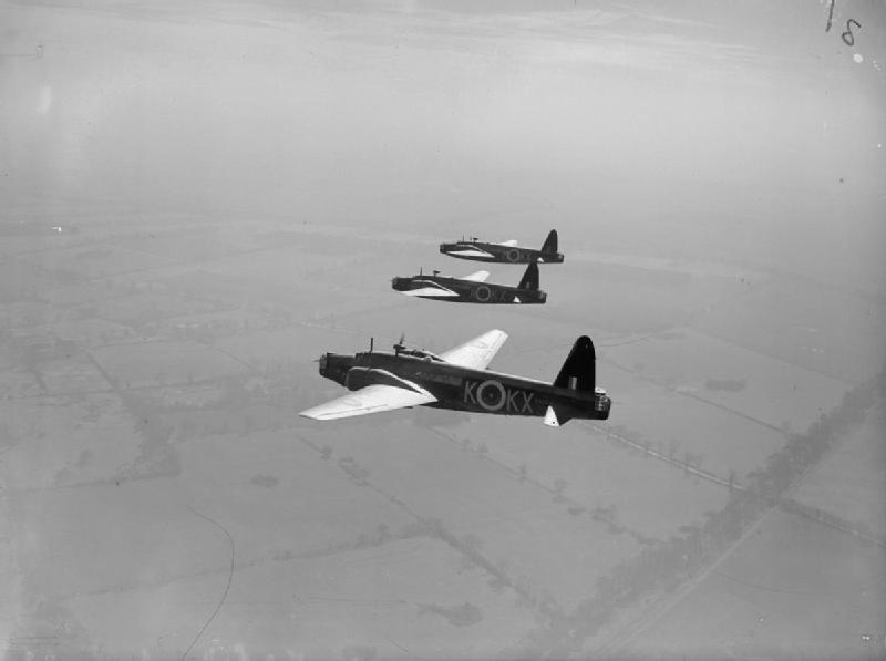 Royal Air Force Bomber Command, 1939-1941 Three Vickers Wellington Mark ICs, R1378 ‘KX-K' and T2541 ‘KX-A’ and R1410 ‘KX-M’,, of No. 311 (Czechoslovak) Squadron RAF based at East Wretham, Norfolk, flying in port echelon formation over East Anglia.